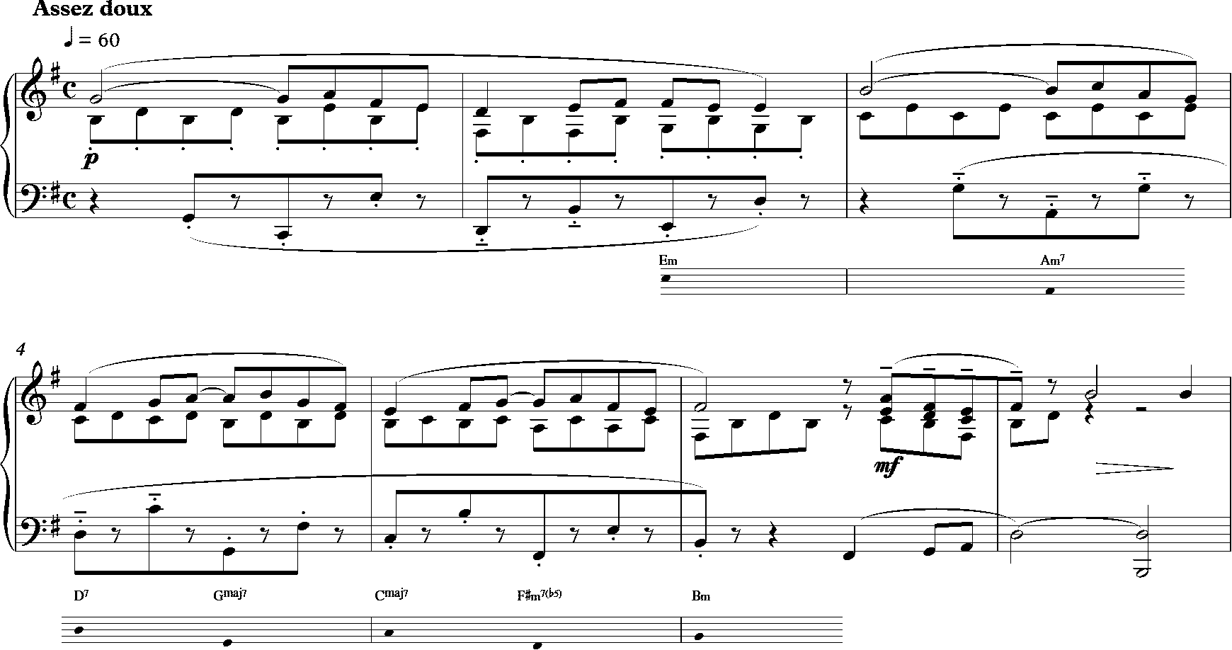 Ravel Pavane pour une infante defunte